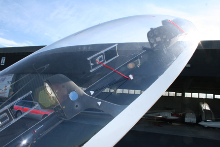 Side string to measure the angle of attack of a glider. Similar to the yaw string